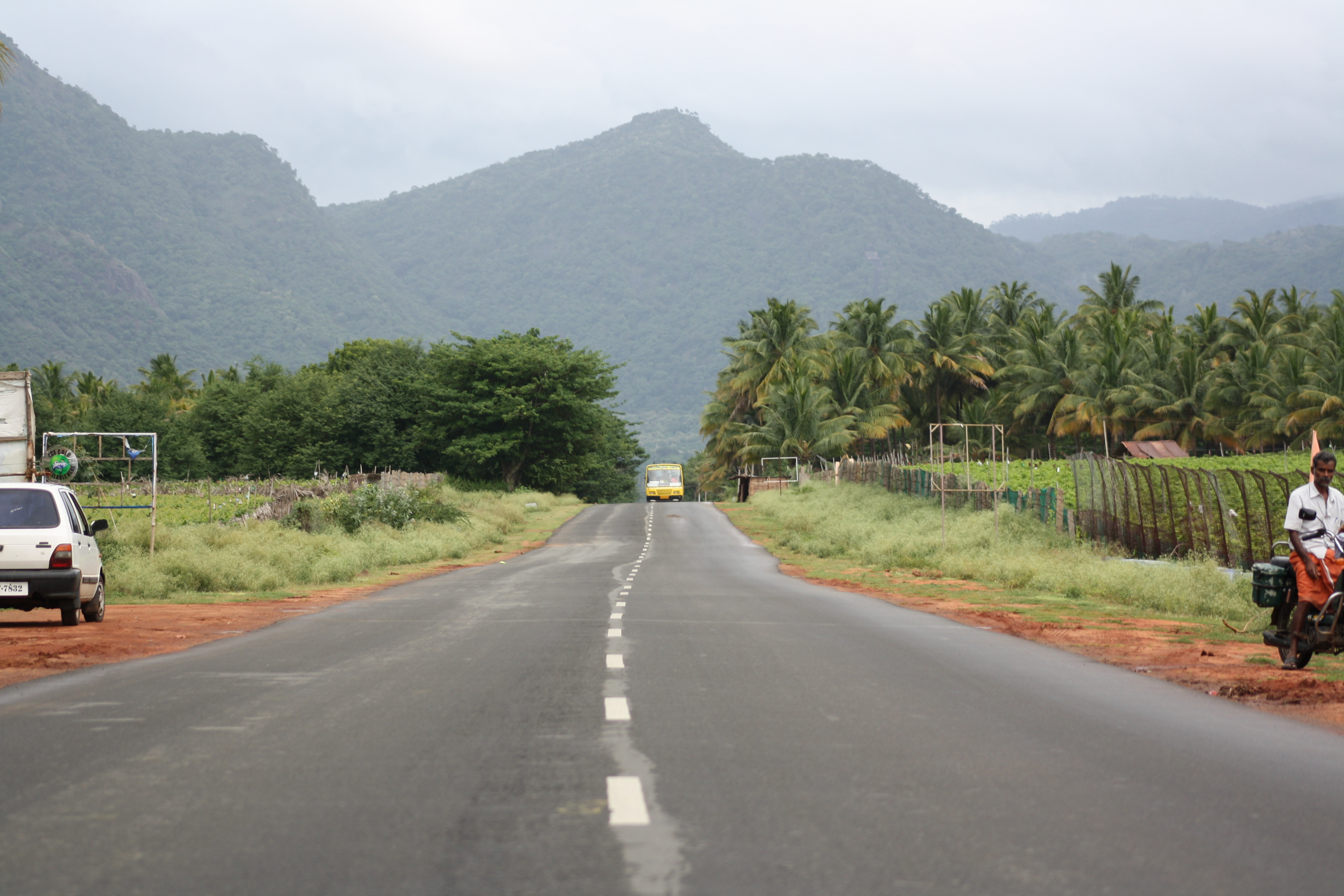 NH 220 Section between Thekkady and Theni